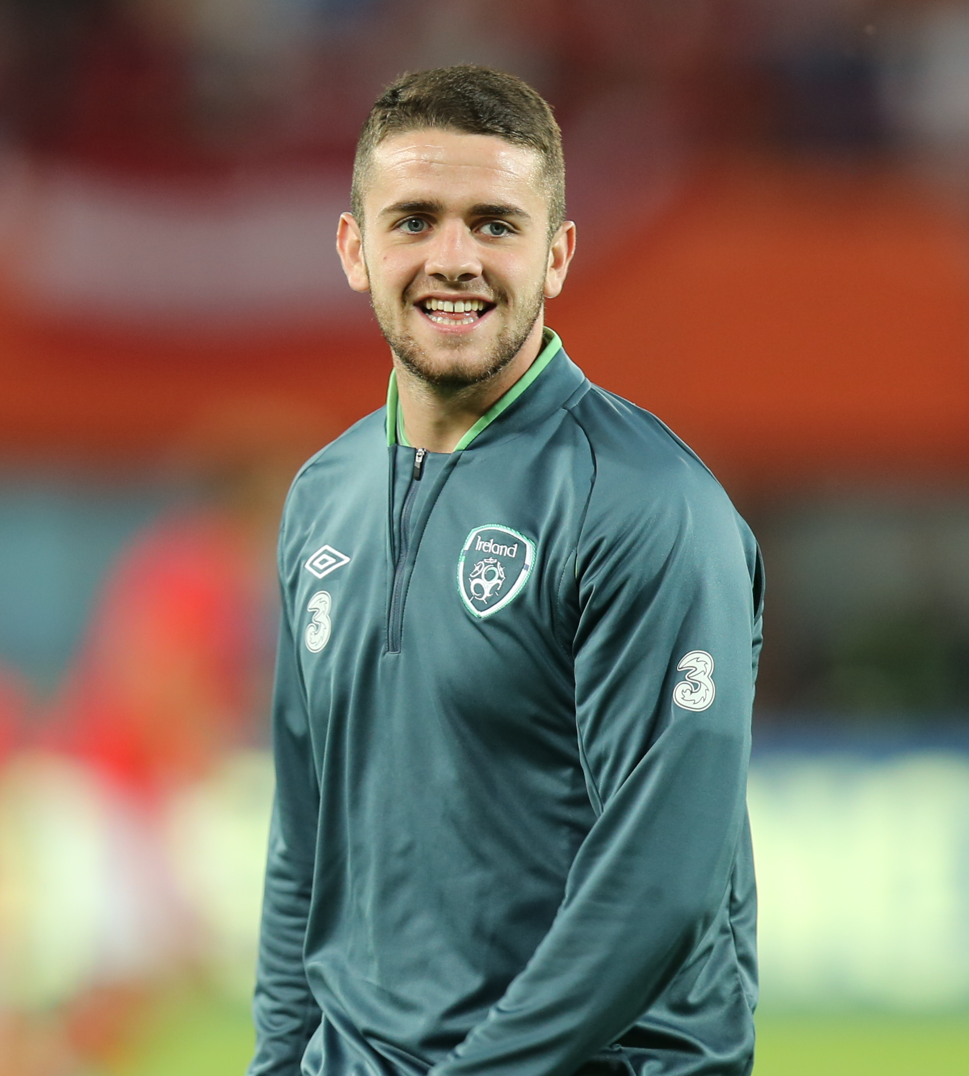 2014 FIFA World Cup qualification (UEFA), Group C: Republic of Ireland national football team at 10. September 2013 before the match against the Austria national football team (0:1) in the Ernst-Happel-Stadion in Vienna. Here: Robbie Brady, irish midfielder The making of this work was supported by Wikimedia Austria. For other files made with the support of Wikimedia Austria, please see the category Supported by Wikimedia Österreich.